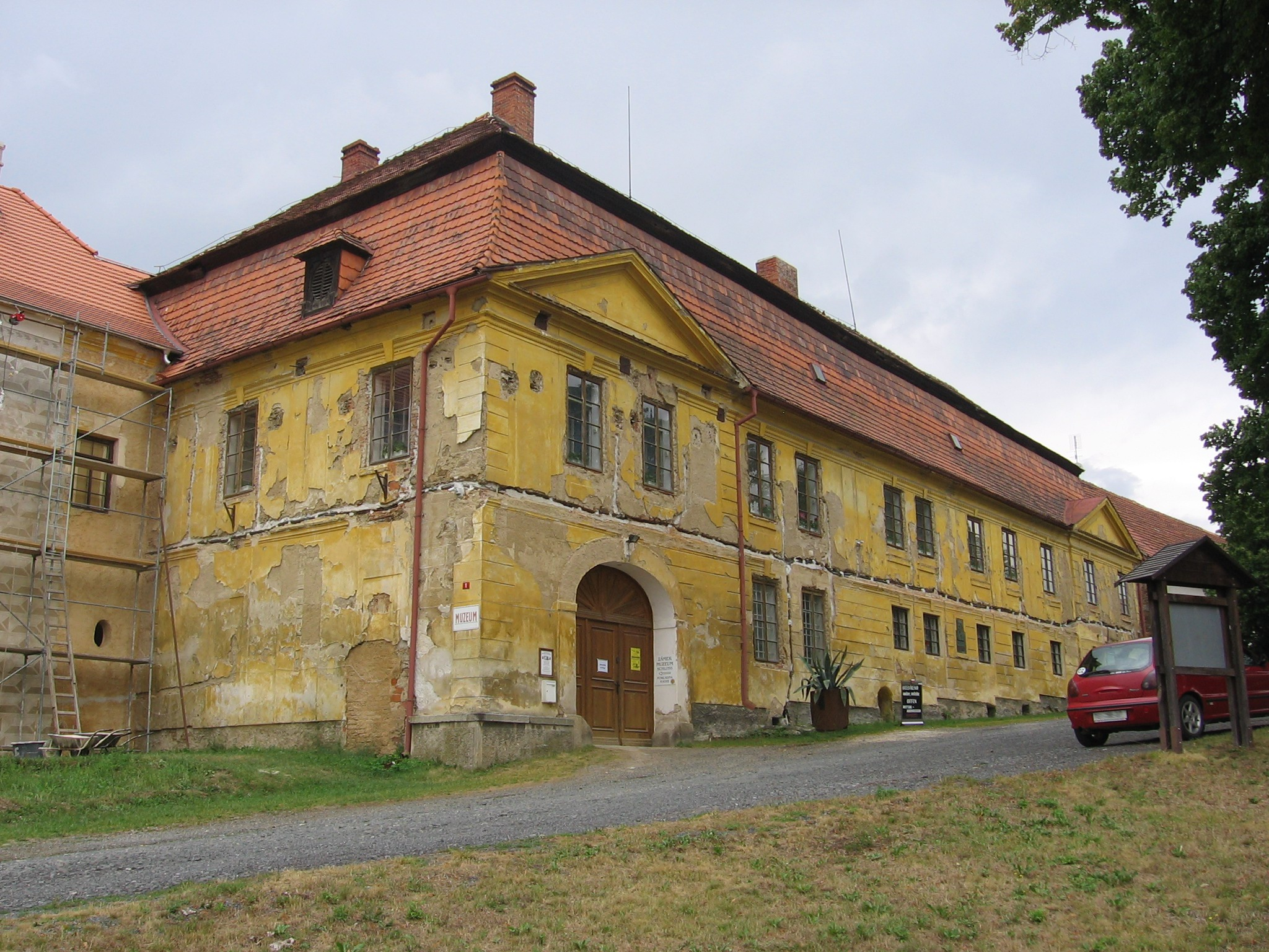 Old Palace in Chudenice